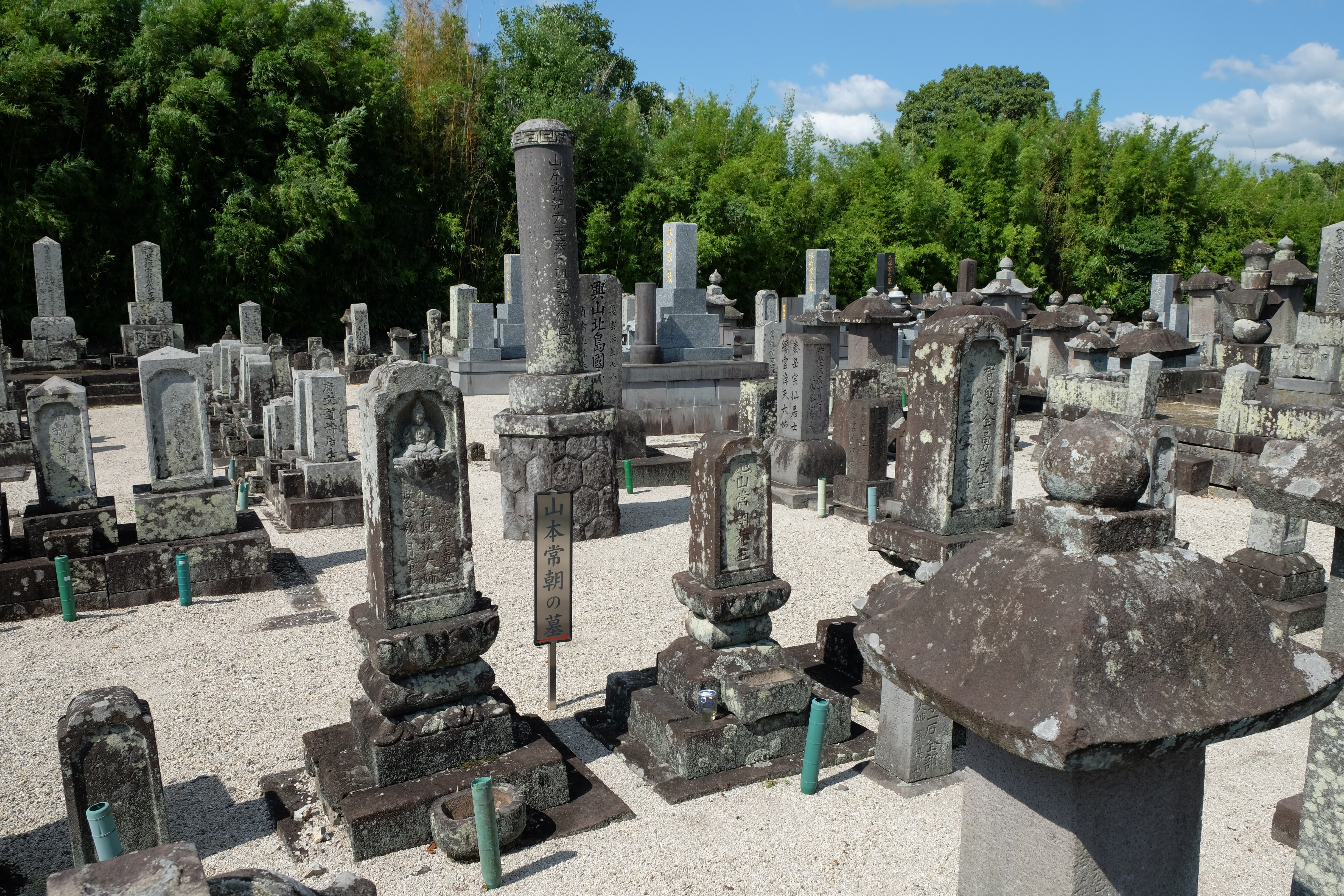 The grave of Yamamoto Tsunetomo(Yamamoto Jōchō), in Ryūun-ji Temple, Saga City.